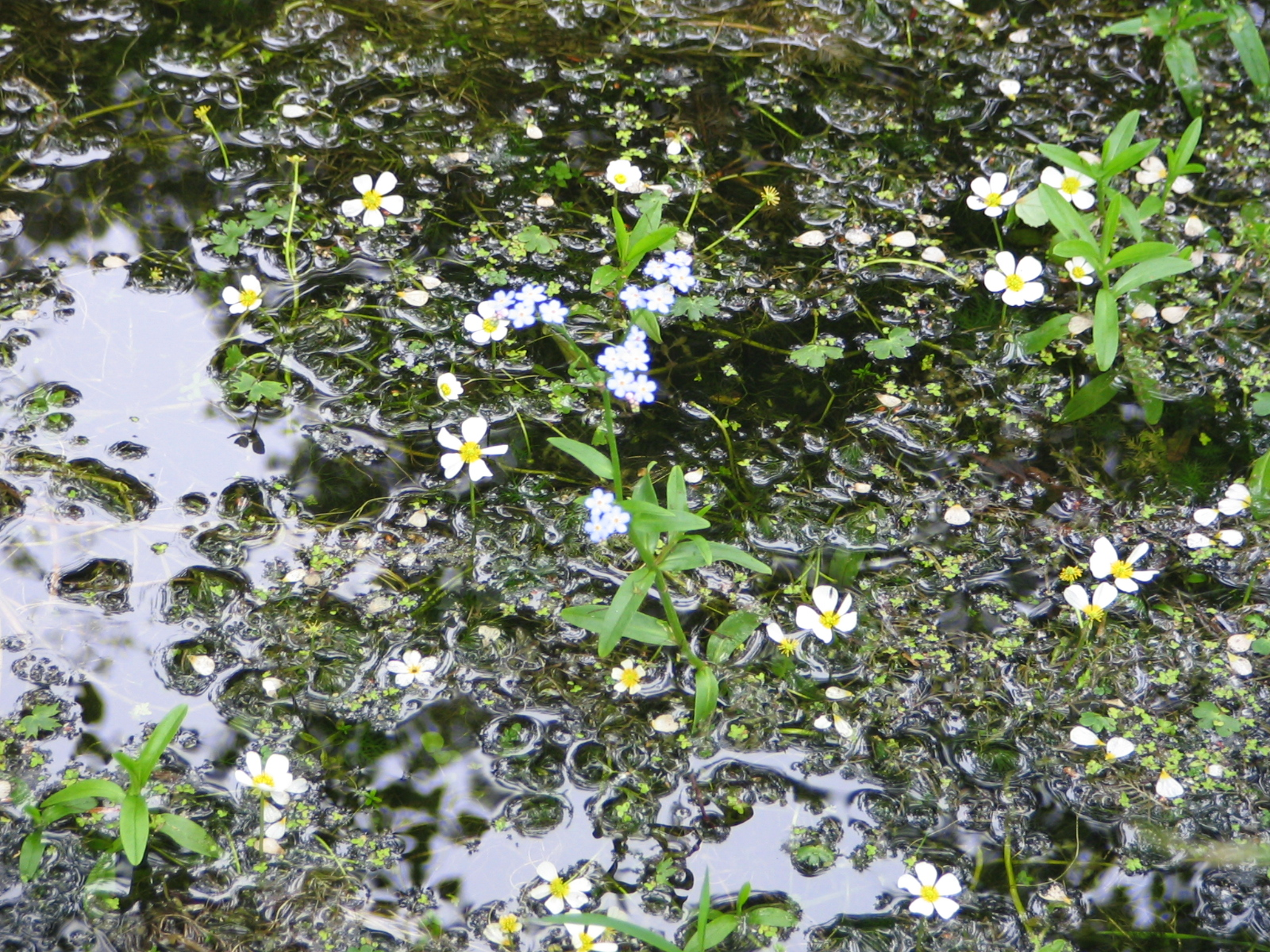 Ranunculus cf. aquatilis, Mönchsbruch, Germany